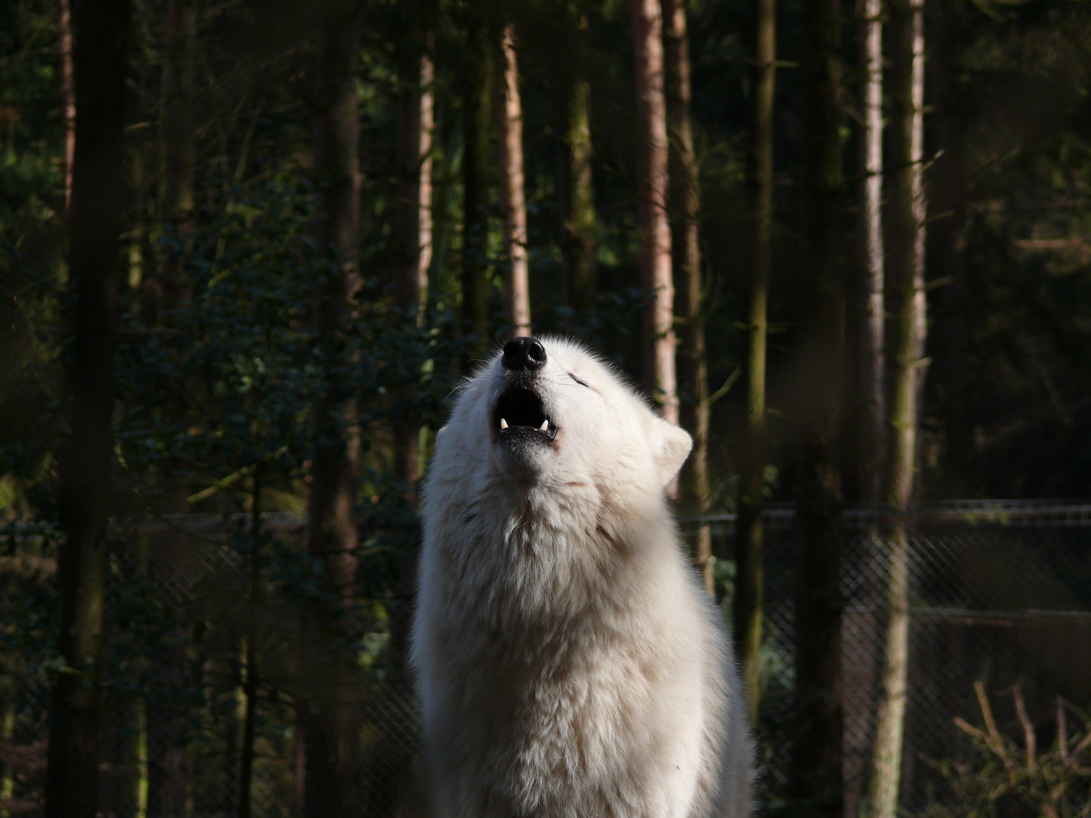 Polar Wolf, howlng